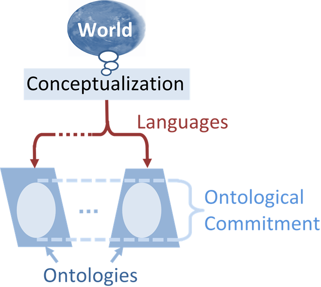 Flow chart showing relation between a conceptualization and an ontology in information science. Imported from Citizendium